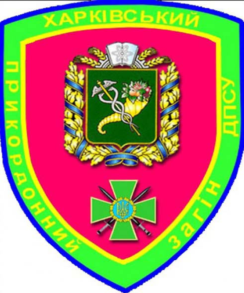 State Border Guard Service Patches of Ukraine